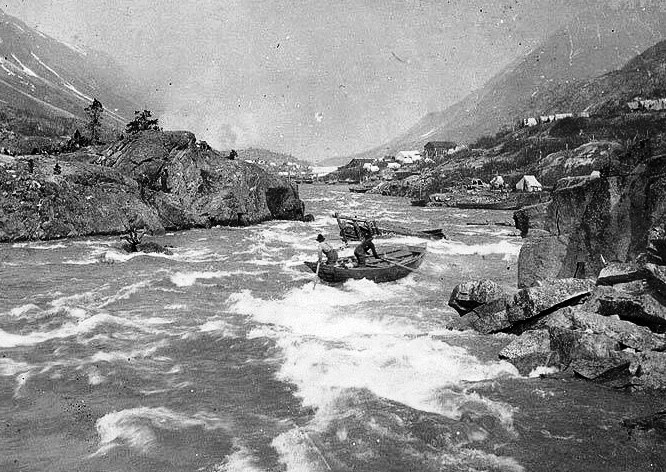 Klondike prospectors in small boat on One Mile River between Lake Lindemann and Lake Bennett, c. June 1898 (another photo by the same photographer of the same place is dated June 4)